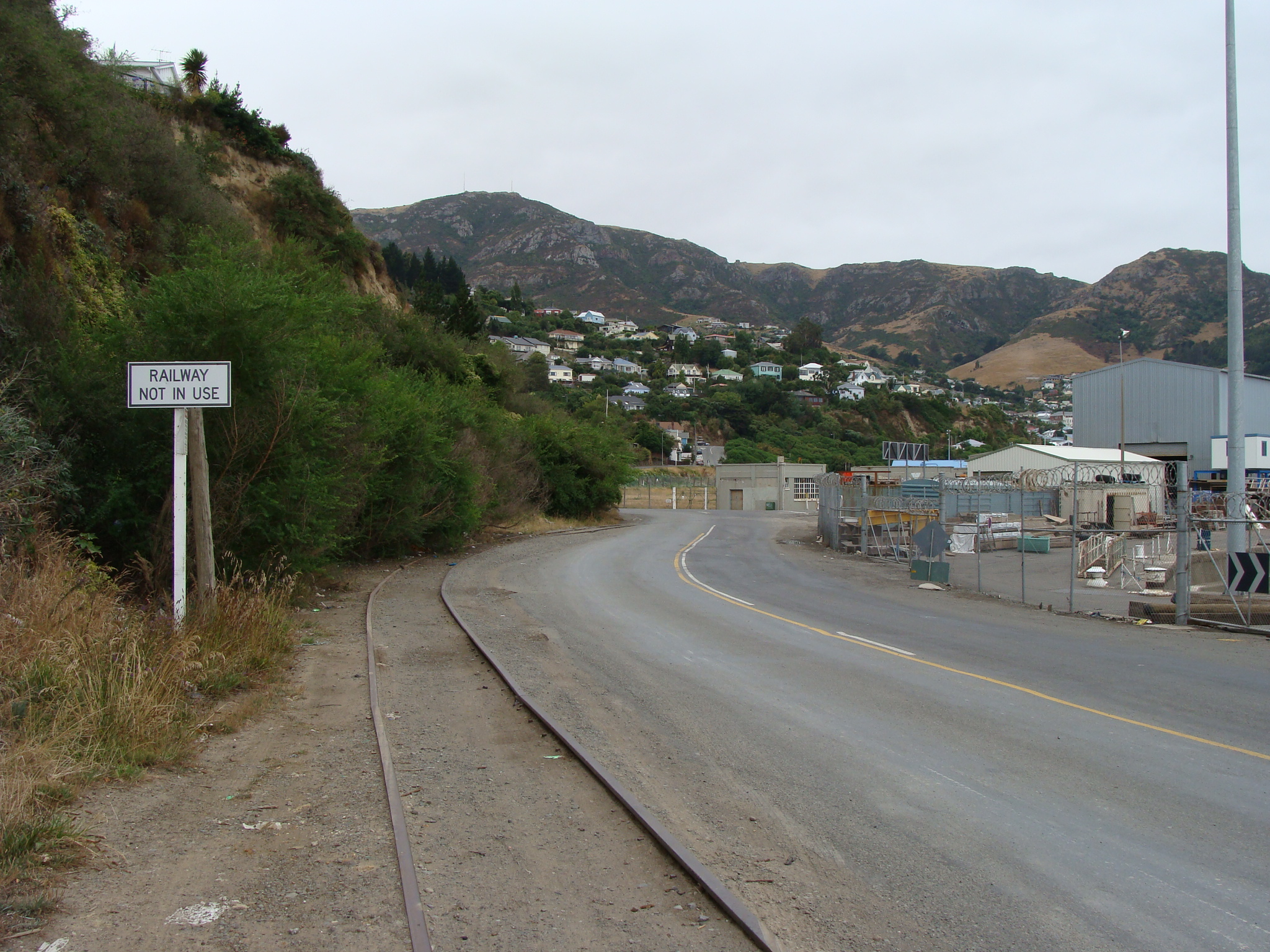 Looking north-east at the disused Lyttelton Port main oil siding crossing Godley Quay.